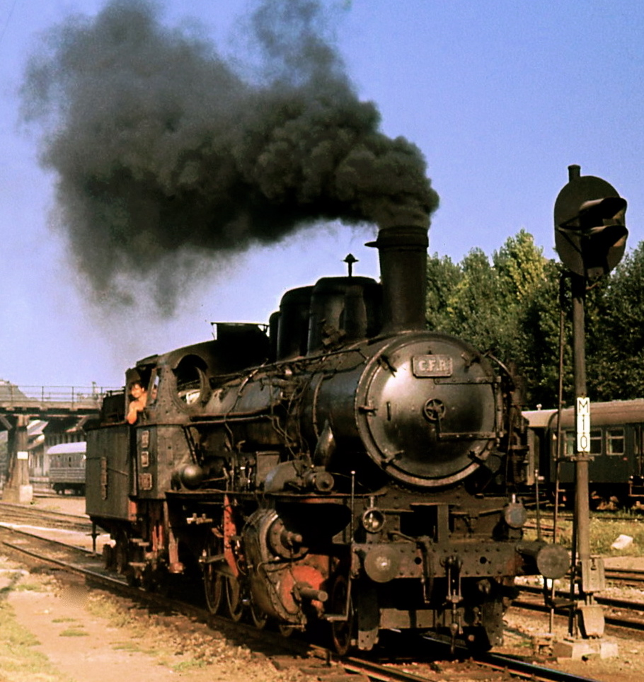 CFR (Romanian Railways) 140 class 2-8-0 shunting at Cluj Napoca, August 1972.